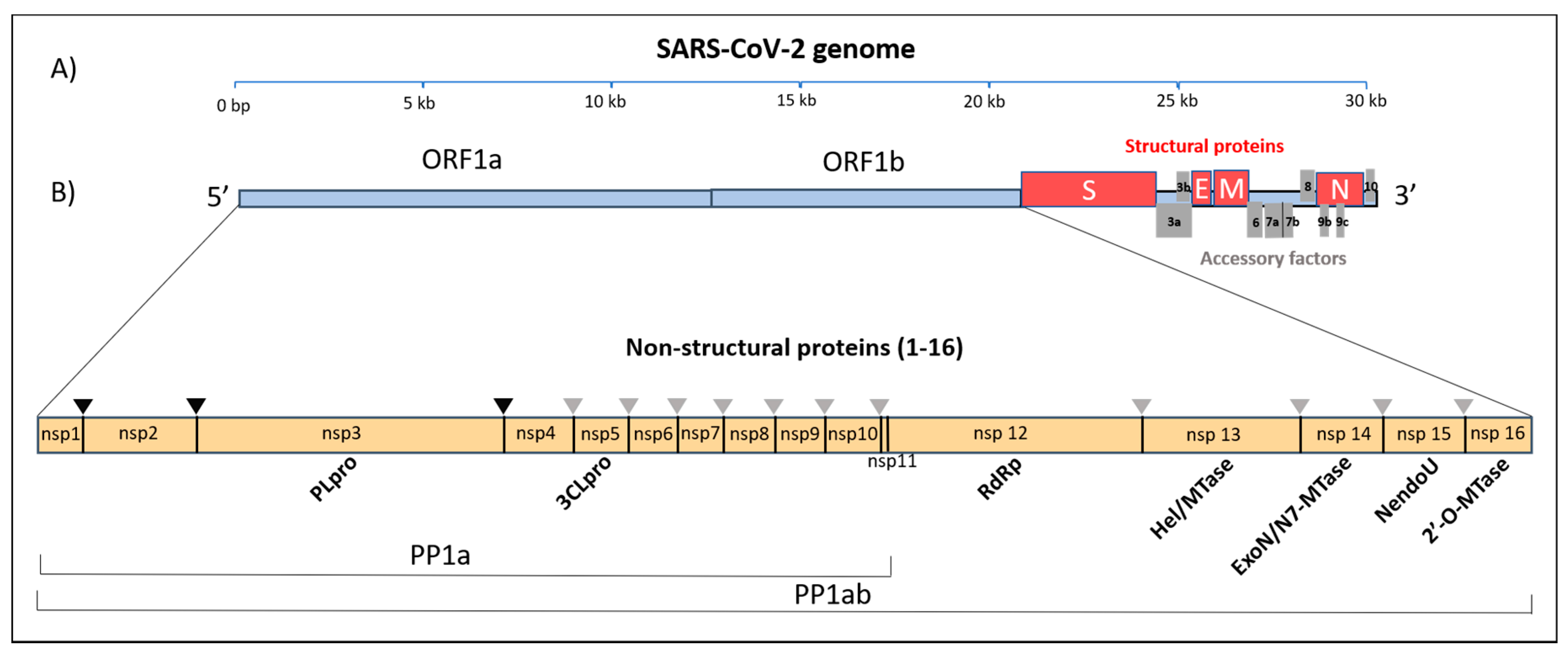 SARS-CoV-2 19 polycistronic genome. (A) Genome of SARS-COV-2 organized in individual ORFs. (B) Polyprotein 1ab (PP1ab) embeds 16 non-structural proteins (Nsps); the black and grey triangles indicate the cleavage sites of the protease PLpro and 3CLpro, respectively. Names of confirmed and putative functional domains in the Nsps are also indicated.